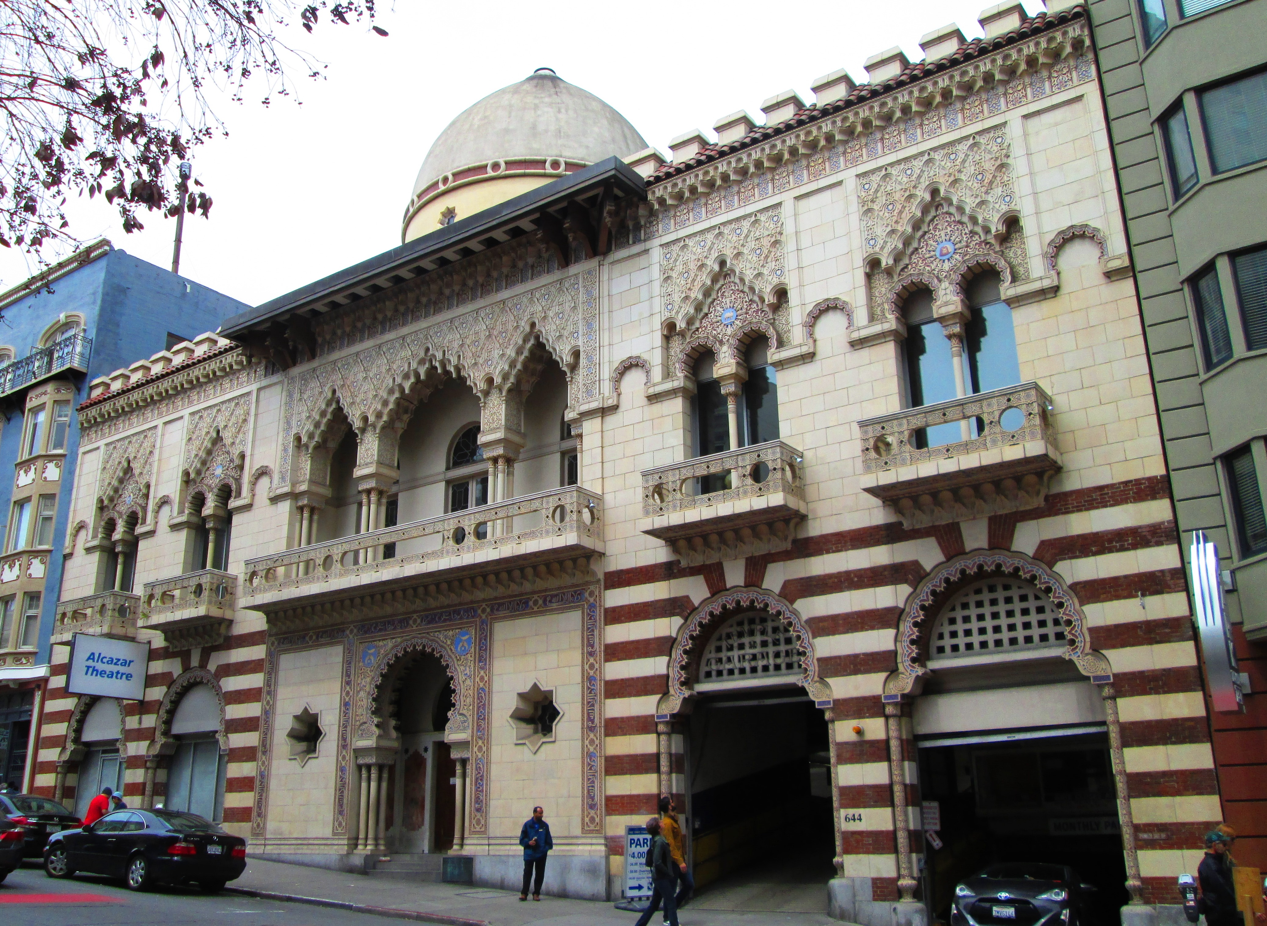 The Alcazar Theatre at 650 Geary Street between Jones and Leavenworth Streets in the Theatre District of San Francisco, California, was originally built as the Islam Shriner's Temple in 1917, and was designed by T, Patterson Rose in the Exotic Revival style. The building remained a temple until 1970, then after the Alcazar Theatre at 260 O'Farrell Street (1911) closed in 1961 and was torn down, the temple was converted into a legitimate theatre, which opened in 1976 under the same name. It was gutted by fire in 1982, and re-opened in 1993. The theatre seats 511, and hosts touring productions of Off-Broadway and Broadway plays as well as other theatrical events. The building was designated a San Francisco Landmark on October 18, 1989.